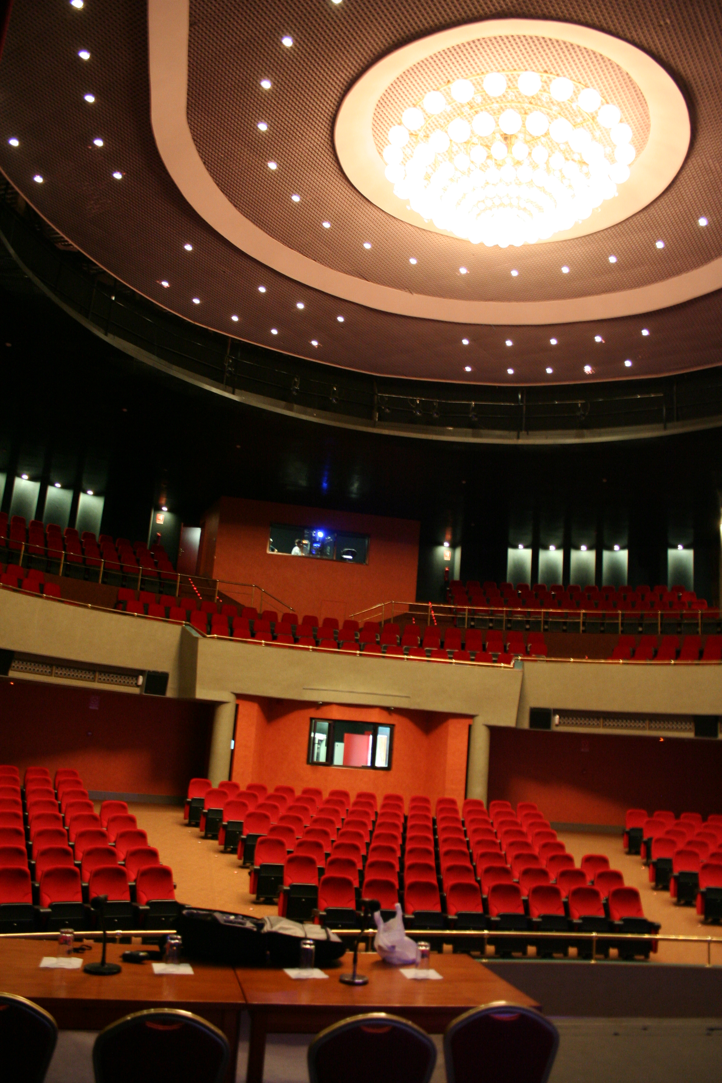 Inside the Theater Maestro Álvarez Alonso of Martos